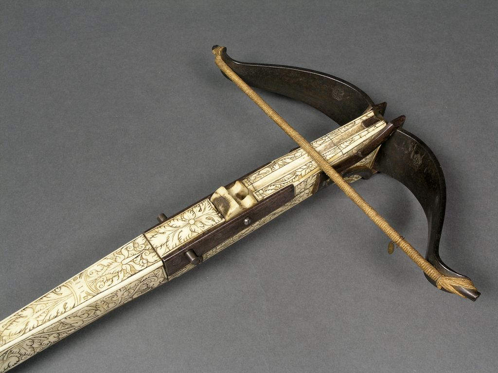 17th Century Sporting Crossbow, probably German Ivory stock, which is decoratively engraved. On the underside there is a steel handle. The bow at the end is curved, and there is a rope taught between the two ends. Editing undertaken: Unsharp Mask, Shadows/Highlights